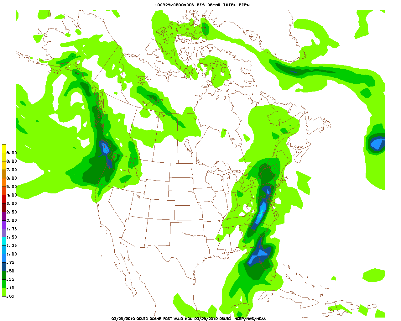 00z six-hour Global Forecast System (GFS) total precipitation forecast for North America.